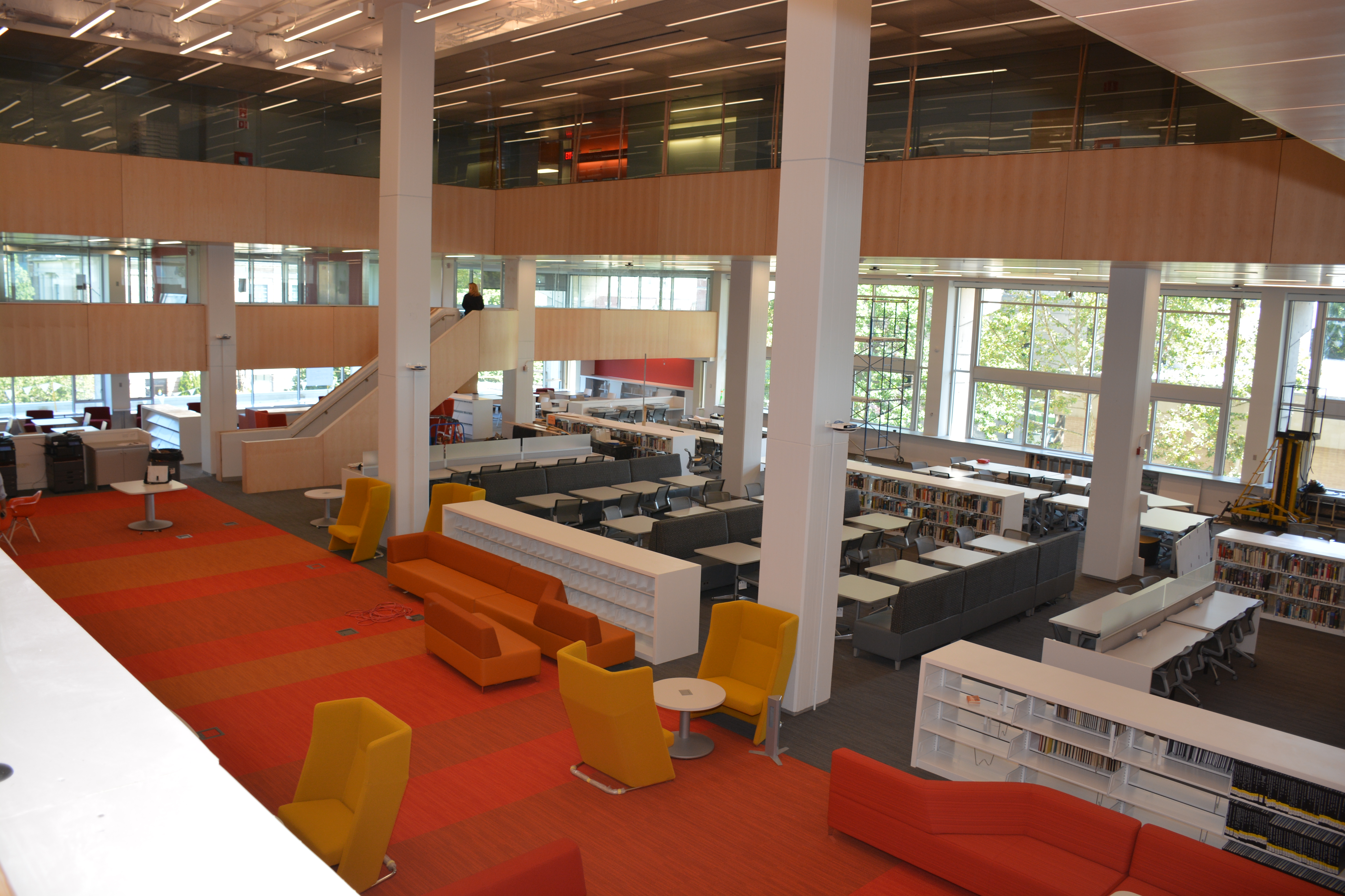 Wentworth's Douglas D. Schumann Library & Learning Commons